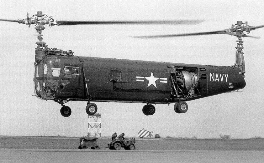 A U.S. Navy Bell XHSL-1 (Bell Model 61) prototype in flight. This was the first USN helicopter fitted with a dipping sonar, although mostly only the prototypes (BuNos 129133-129136) were used for flight test. Most production models were stored directly. The photo is printed in conjunction with the work of LCdr. Stewart Graham, USCG. He was transferred to the Naval Air Development Squadron (VX-1) in Key West, Florida (USA), in February 1951. Here he taught Navy helicopter pilots and crew members the techniques he had pioneered while testing the dipping sonar until September 1953 when he returned to the USCG.[1]